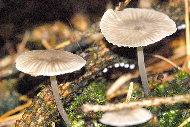 Mycena spec. from Commanster, Belgium. The determination of the species shown in this picture has been verified.